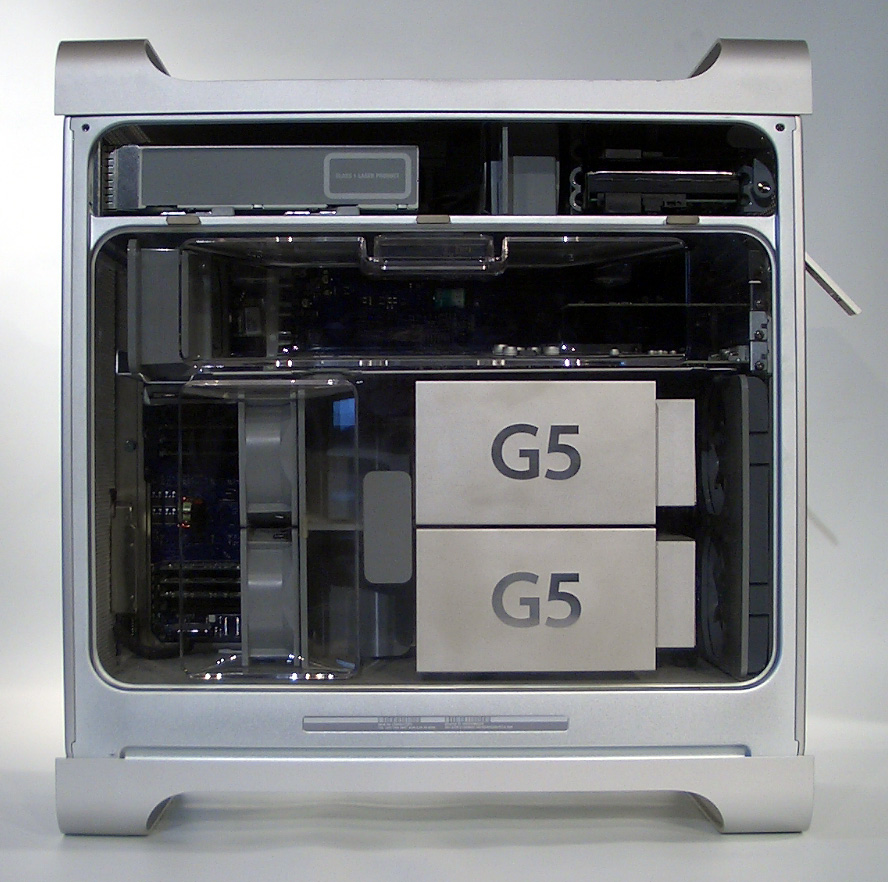 A Power Mac G5 1.8 Dual, open but with the plastic airflow protector still in place. Photo by User:Grm_wnr.